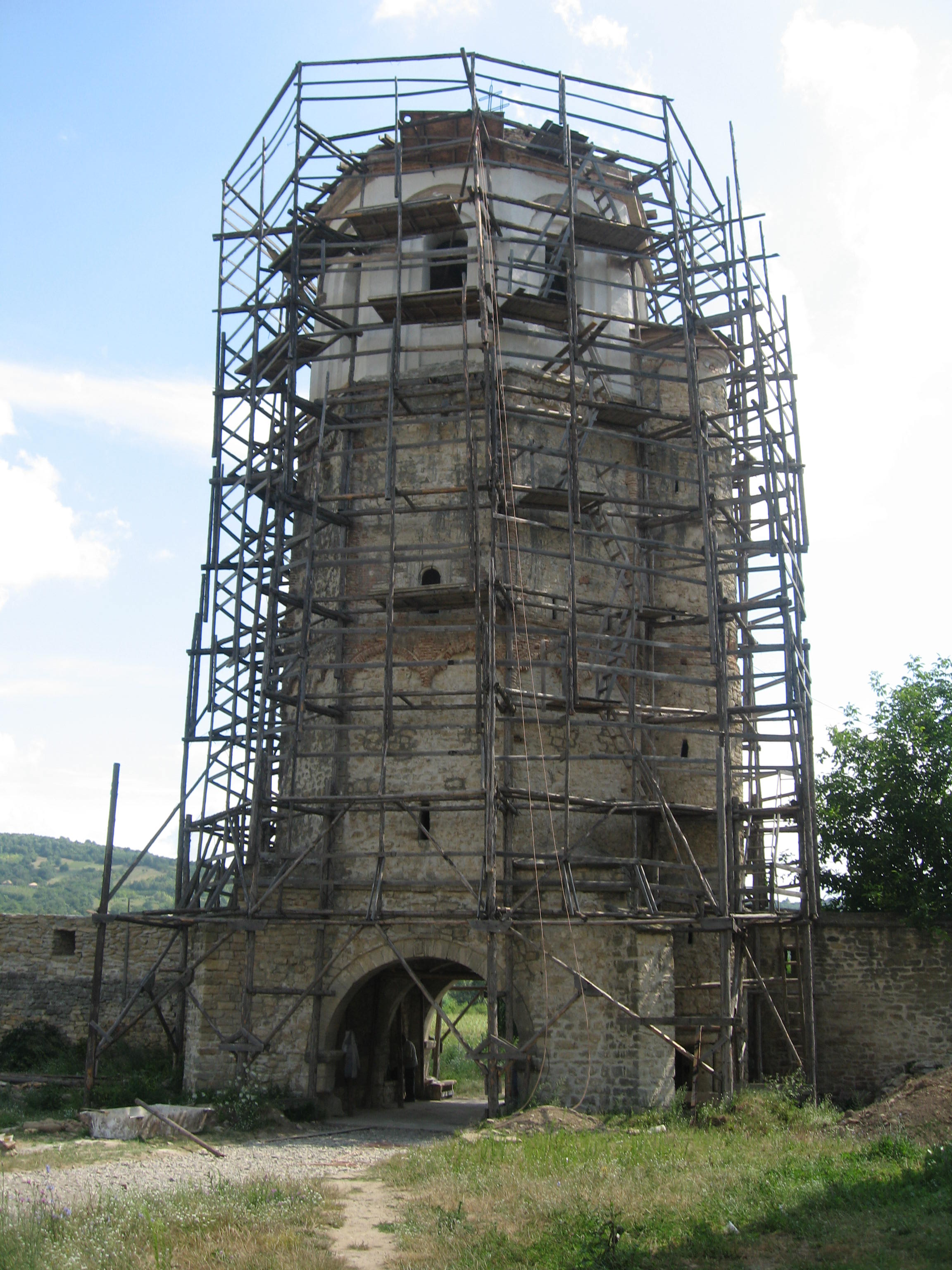 Mănăstirea Dobrovăţ